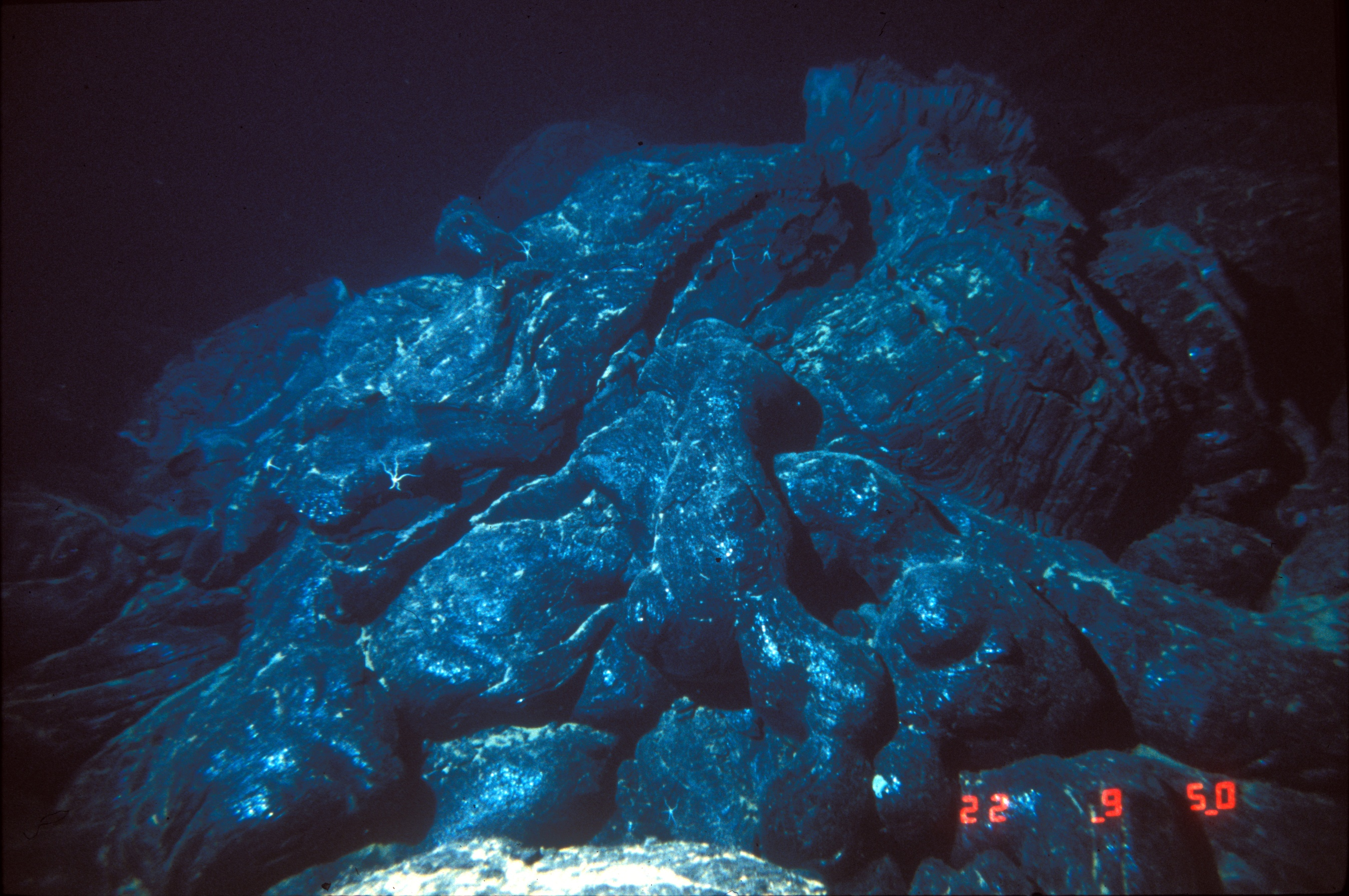 Pillow lavas. June 1988. These lavas erupted from the southern part of the Juan de Fuca Ridge, lying about 150 miles off the coast of Oregon. This photo was taken about 5 years after the eruption.